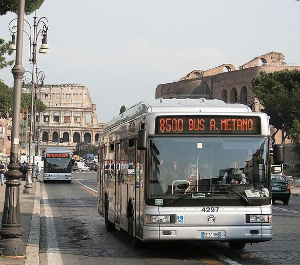 A methane-powered Roman ATAC-bus on the Via dei Fori Imperiali in Rome. In the background, you can see the Colosseum. Irisbus 491E.12.27 CNG CityClass.